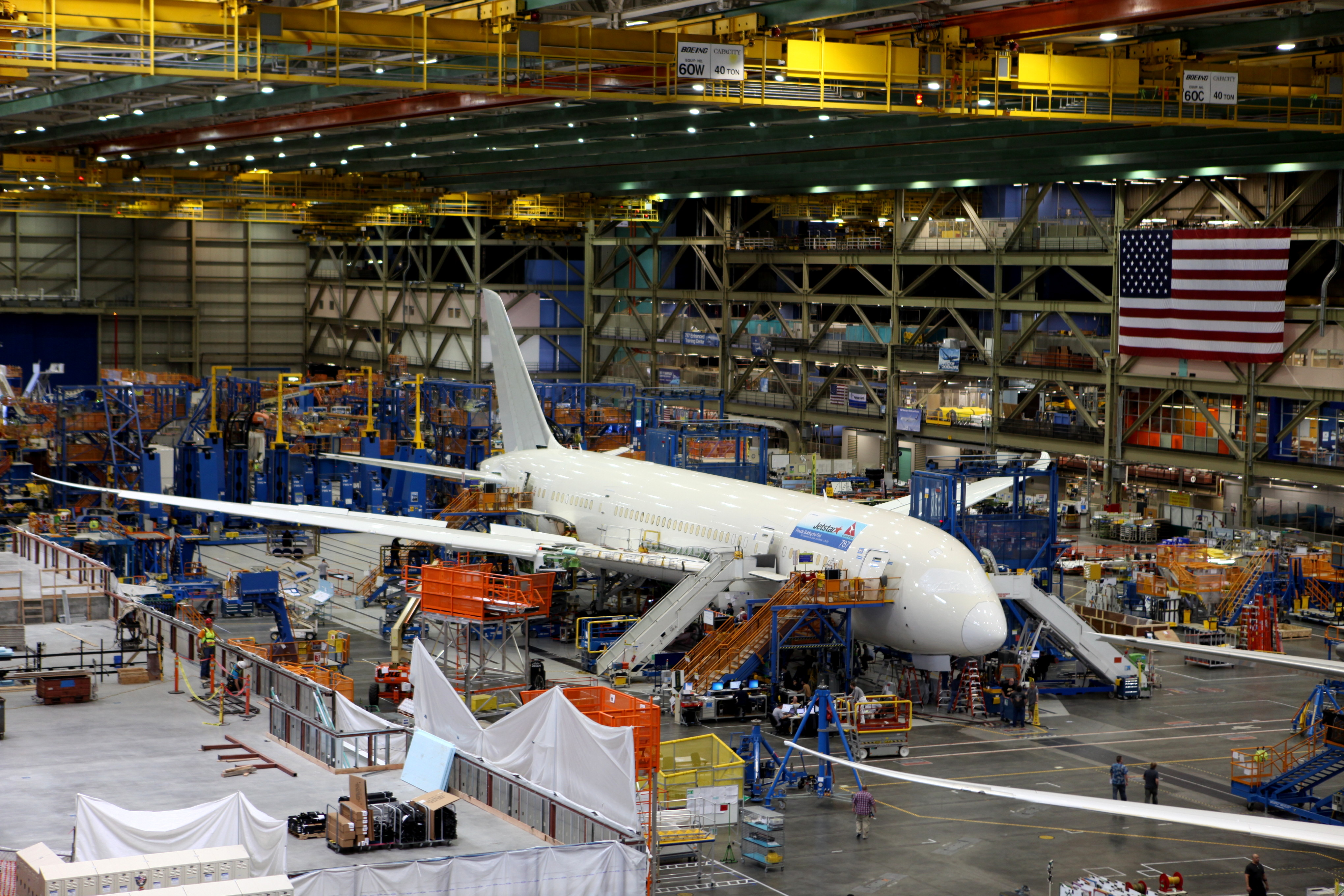 The first Australian registered Boeing 787 in final assembly in Seattle.